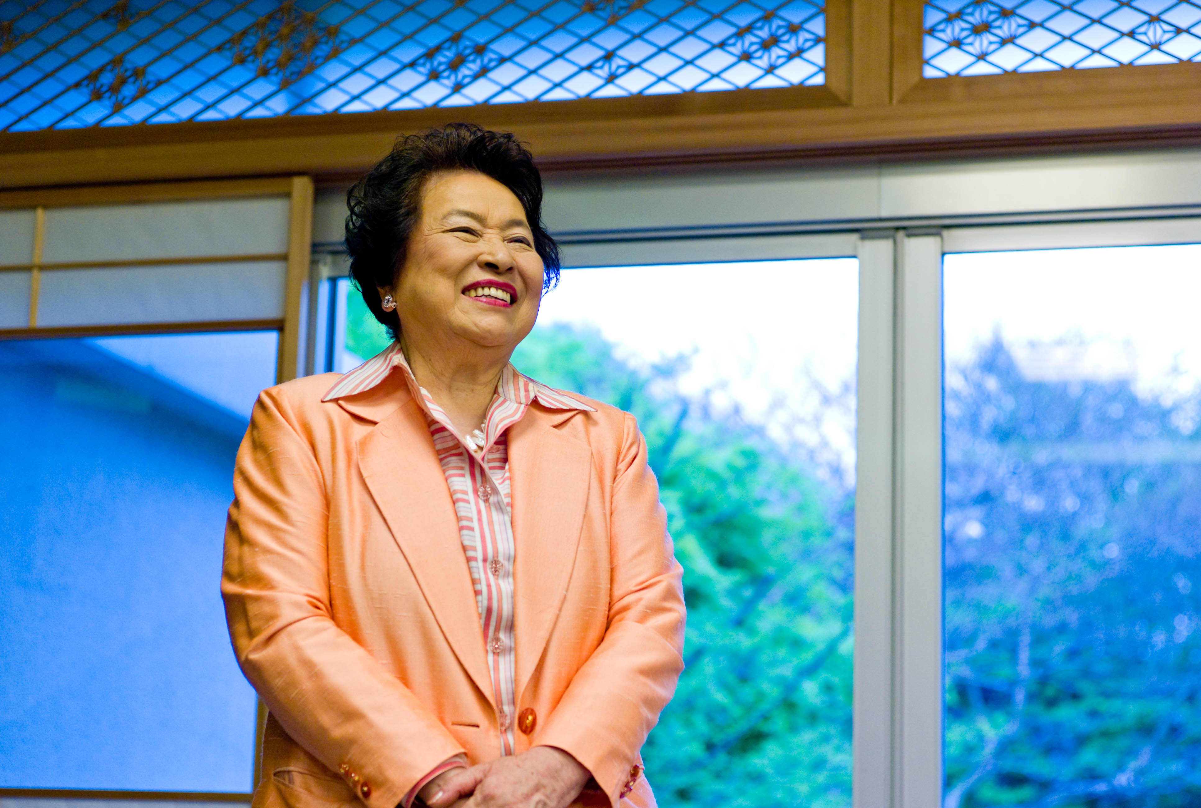 Akiko Domoto